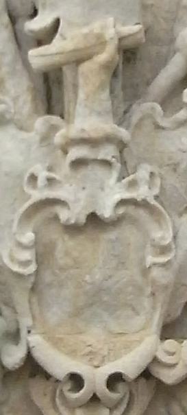 Arms and crest of Robert Rolle below statue of Queen Anne donated in 1708 by Robert Rolle (d.1710) of Stevenstone, MP. On the mercantile exchange now known as Queen Anne's Walk, Barnstaple, Devon